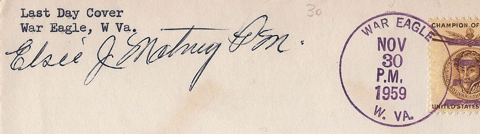 scanned correspondence